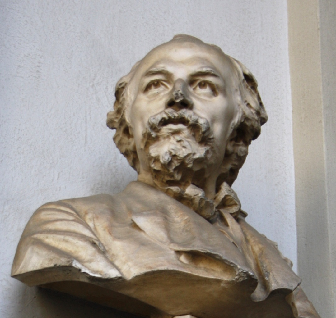 Bust of Tranquillo Cremona in the loggia on the first floor of the Palace of Brera in Milan. It was sculpted by Renato Peduzzi in 1888. Photograph by Giovanni Dall'Orto, October 1 2011.